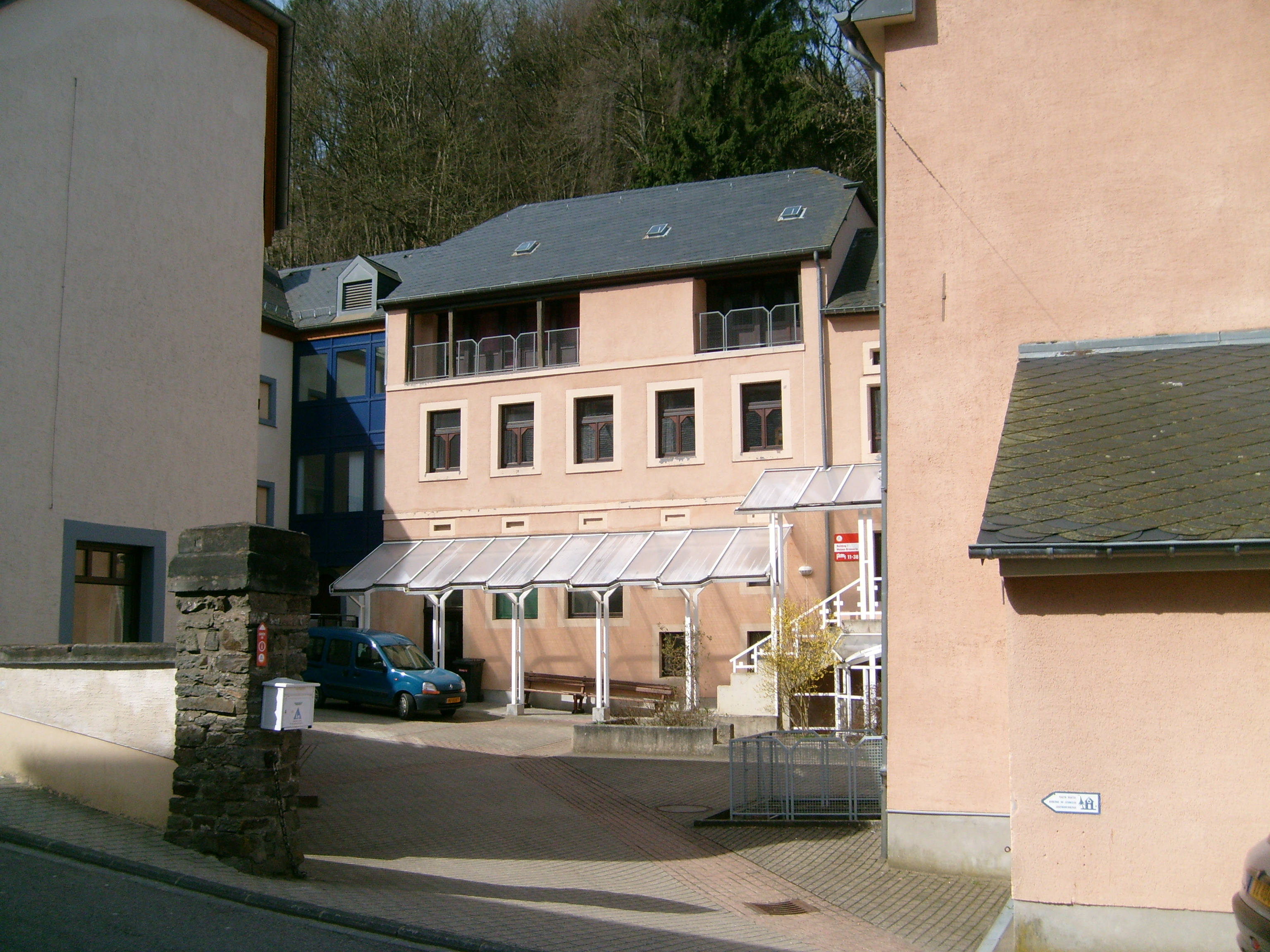 Main building of the youth hostel in Wiltz, Oesling, Luxembourg.